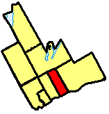 Location of Oshawa City in Durham Region (Ontario Province, Canada)